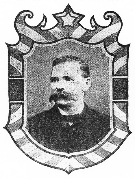 William McKnight, former Coxswain, USN. Halftone image published in Deeds of Valor, Volume II, page 18, by the Perrien-Keydel Company, Detroit, 1907. Coxswain McKnight was awarded the Medal of Honor for his conduct in action on board USS Varuna during the battle off Forts Jackson & St. Philip, on the lower Mississippi River, 24 April 1862.